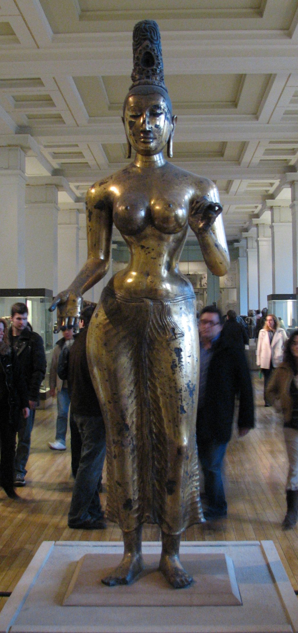 Standing Tārā statue, Sri Lanka, 7th - 8th century (in the collection of the British Museum). This sculpture is cast in bronze and gilded. The eyes and the elaborately arranged hair were doubtless inlaid with precious stones. The sculpture, according the early 19th century accounts, was found in the eastern province of Sri Lanka between Trincomalee and Batticaloa. Česky:Pozlacená socha Táry, Srí Lanka, 7. - 8. století, nyní ve sbírce Britského muzea. Socha byla nalezena na počátku 19. století ve východní provincie Srí Lanky mezi městy Trincomalee a Batticaloa. Byla dlouho dobu identifikována jako místní bohyně Pattini, jejíž kult je na Srí Lance populární. Socha zobrazuje populární buddhistické božstvo - ženského bódhisattvu Táru, jež je družkou Avalókitešváry, bódhistattvy soucitu. Kult Táry je populární v mahájánovém a zejména vadžarjánovém buddhismu, kdežto na Srí Lance je rozšířen již od 3. století př.n.l. théravádový buddhismus. Socha Táry je právě dokladem skutečnosti, že ve 7. století na Srí Lanku pronikla také mahájána. Tato forma buddhismu na Srí Lance zanikla v době vlády krále Parákrama Báhu (1153 - 1186). Socha je jednou z nejhezčích ukázek figurálních bronzových odlitků v Asii. Je celá odlita z jedná formy a pozlacena. Oči a komplikovaně naaranžované vlasy byly zcela jistě vykládány drahokamy. Malý výklenek ve vysokém účesu mohl nejspíš obsahovat malé zobrazení sedícího Buddhy. Tára je zobrazena polonahá, zakrytá pouze od pasu dolů. Její práva ruka je v pozici tzv. varadamudry - gesta (mudry) dávání, levá ruka je prázdná, i když pravděpodobně původně držela lotos. External links Informations on the website of the British Museum